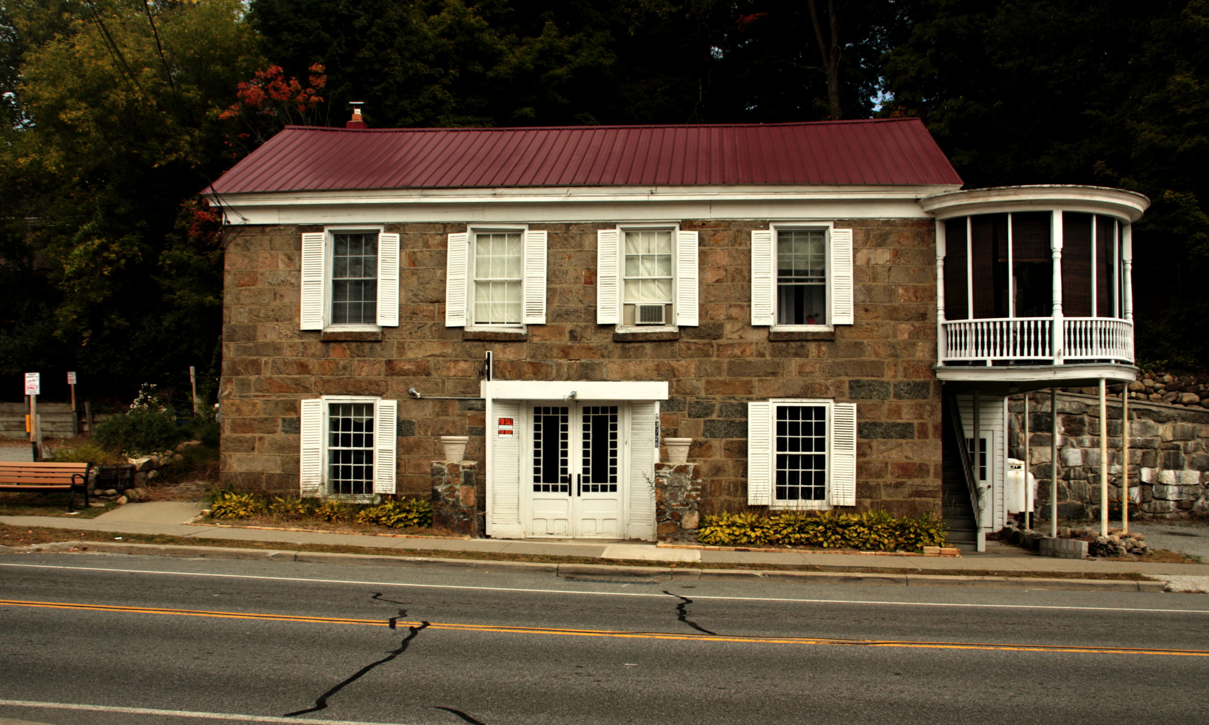 The Mixter Blacksmith Shop, c.1865, listed in the National Register of Historic Places. Located at 3728 Main Street (also called Route 9), Warrensburg, NY. Photo taken in 2016.